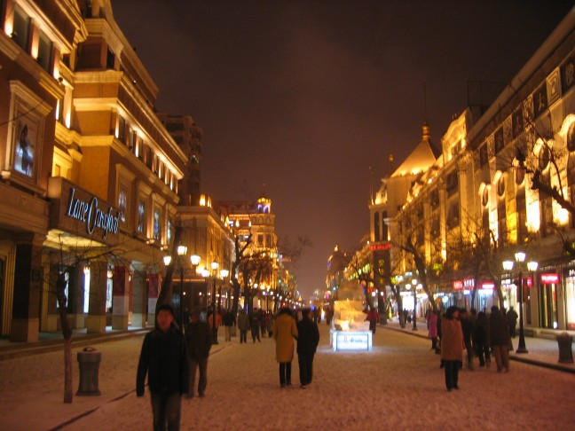 Chinese between European facades. Harbin, Heilongjiang province.